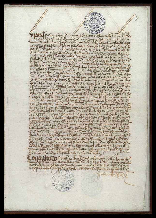 Original page from the Tratado de Tordesilhas